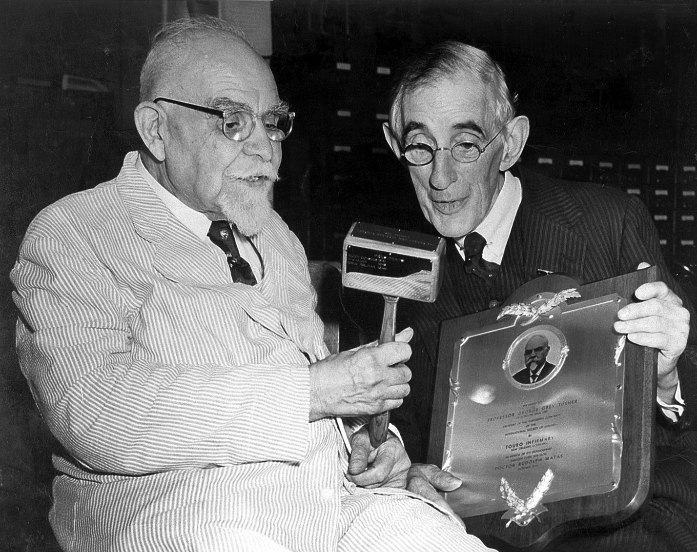 Professor Rudolph Matas and Professor G.Grey Turner after the presentation of a silver plaque in the Matas Library, Tulane University, New Orleans